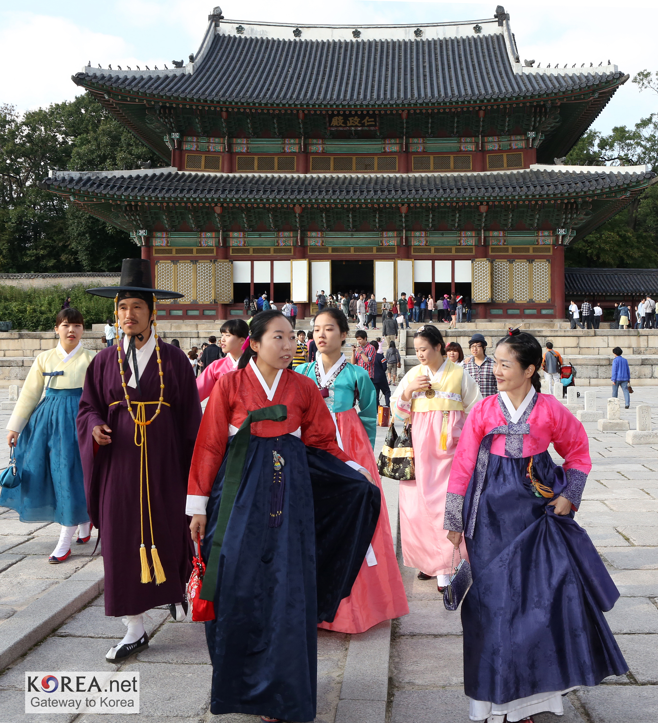 Chuseok Sketch in Changgyeonggung, Seoul